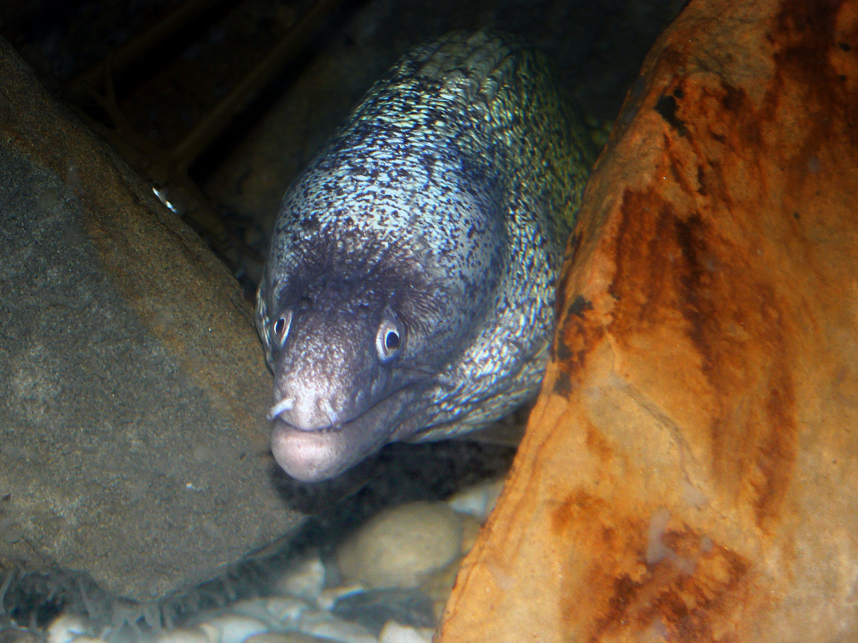 Description: Moräne moraine Source: Own Work Date: 29.04.2006 Author: Attribution Share Alike (by-sa)